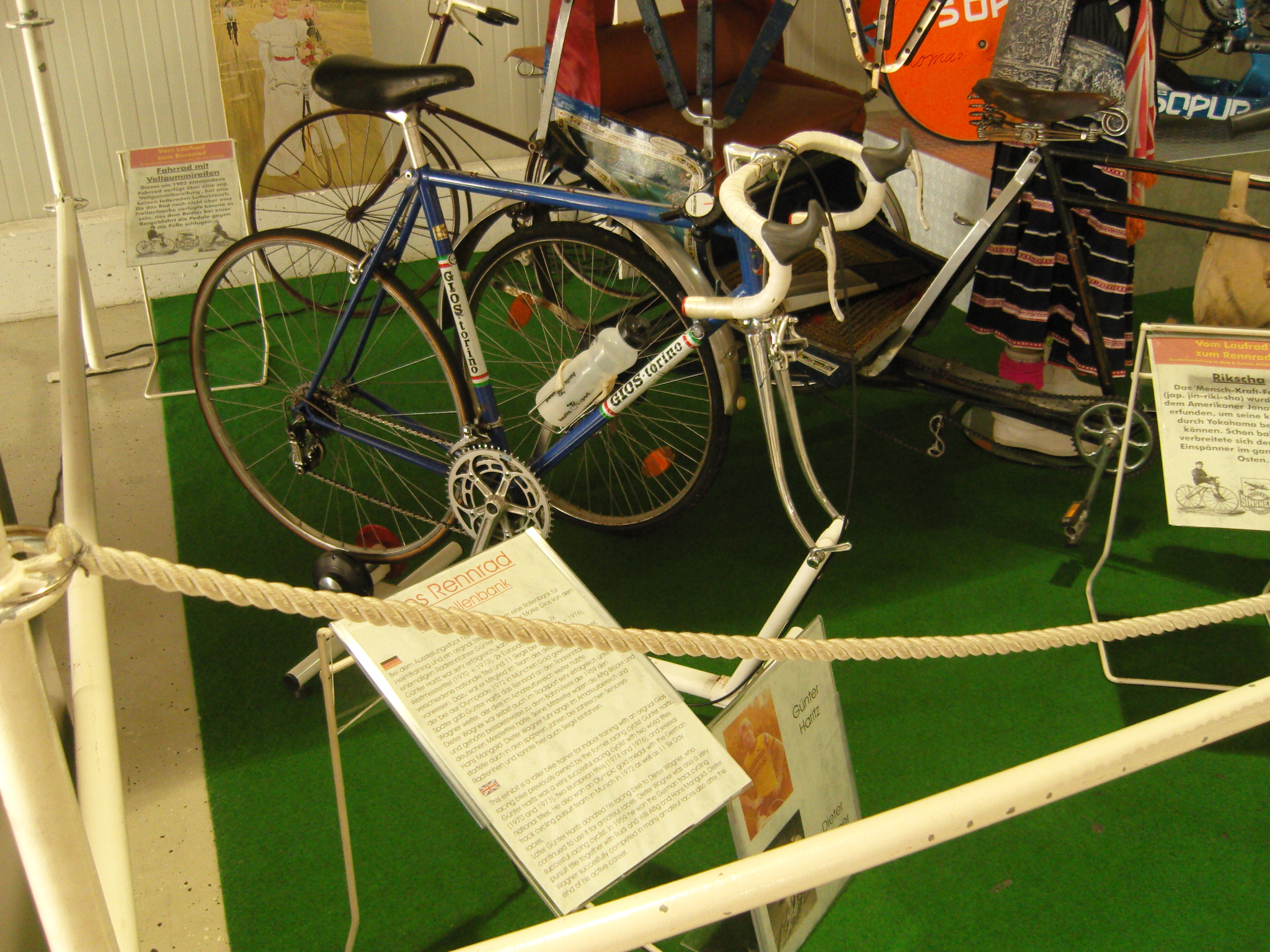 Gios torino ,Günter Haritz bike